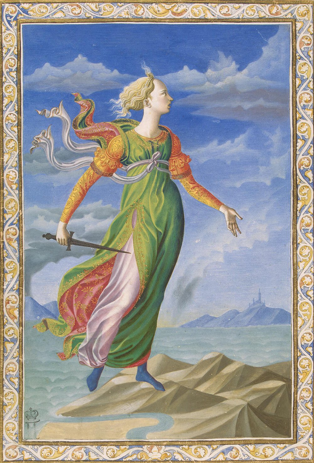 Illustration for the manuscript De Secundo Bello Punico Poema by Silius Italicus